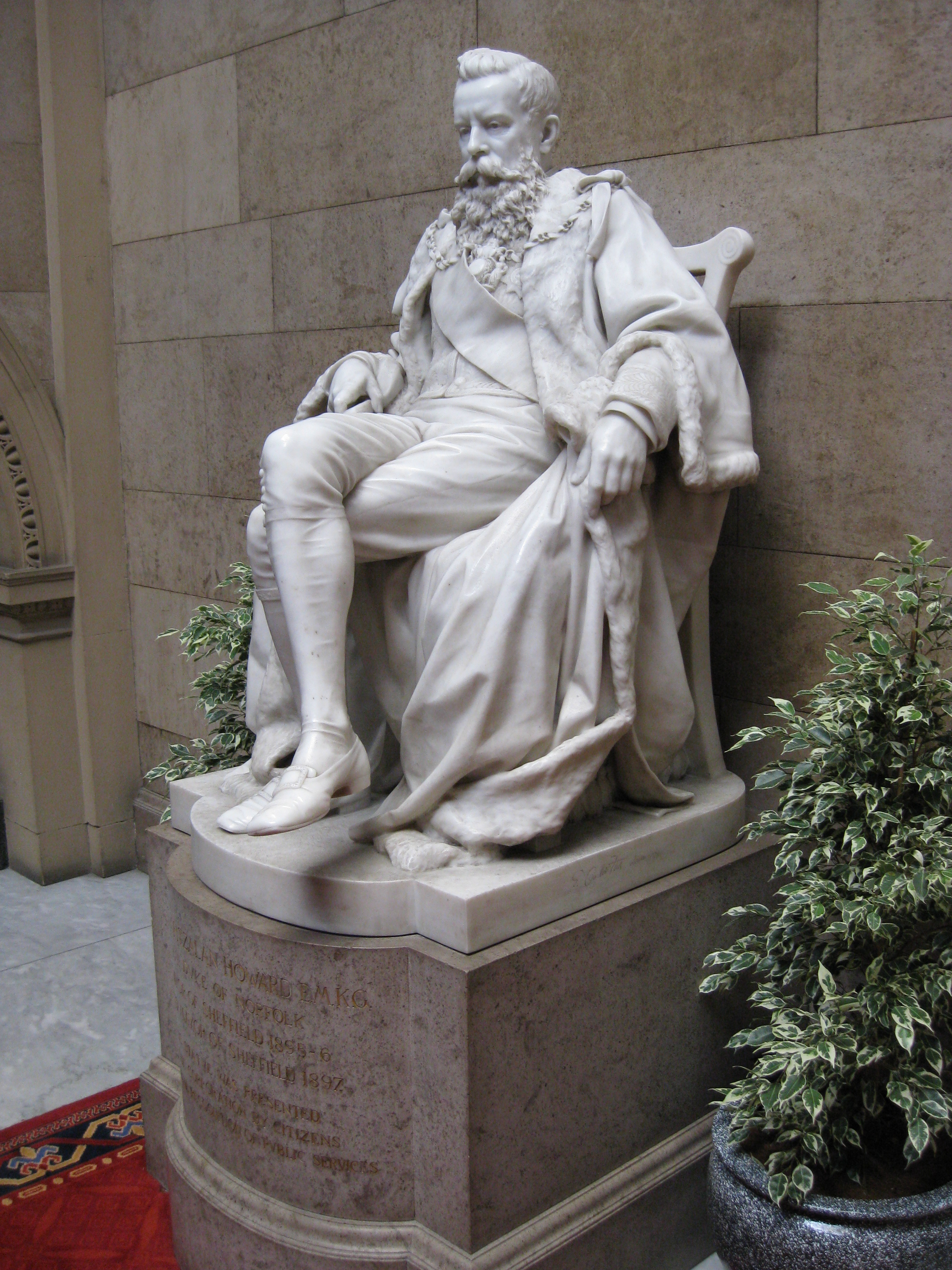 Sculpture of Henry Fitzalan Howard in Sheffield Town Hall. circa 1897. The inscription reads "HENRY FITZALAN HOWARD E M KG, 15th DVKE OF NORFOLK, MAYOR OF SHEFFIELD 1895-6, LORD MAYOR OF SHEFFIELD 1897, THIS STATVE WAS PRESENTED, TO THE CORPORATION BY CITIZENS, IN GRATEFVL RECOGNITION OF PVBLIC SERVICES